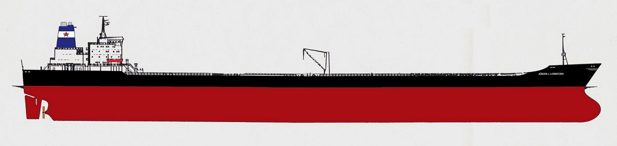 Oil Tanker ship